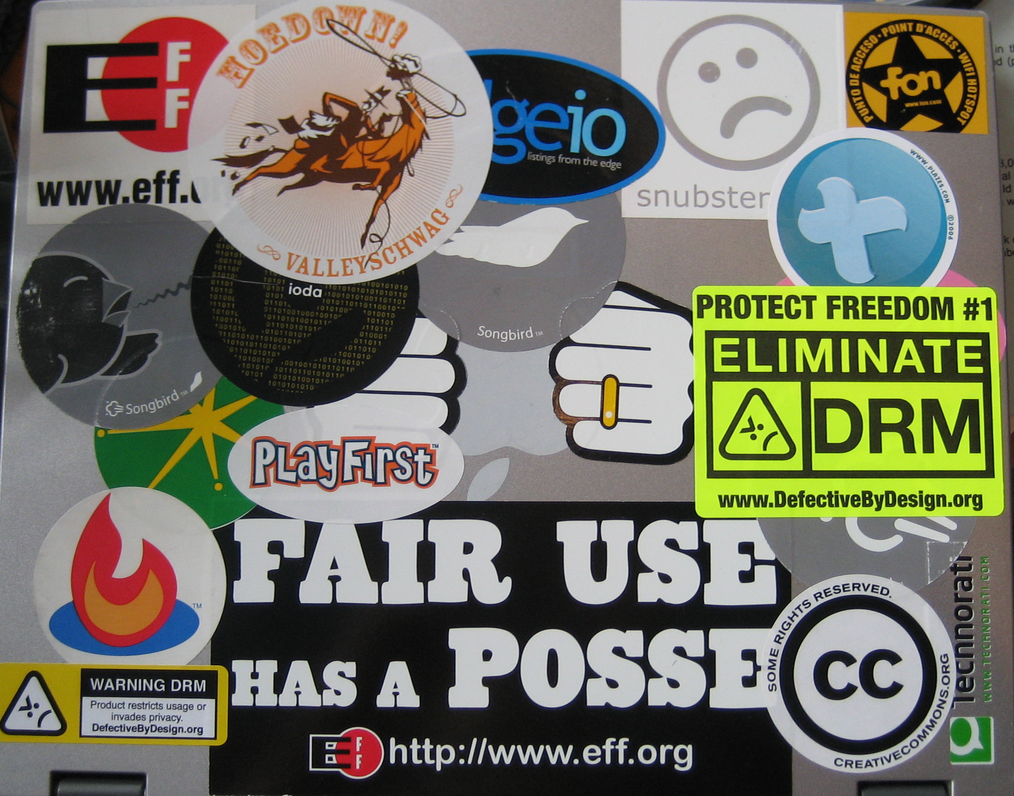 Laptop stickers: it's all about freedom.